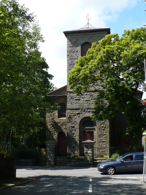 St David's Church, Rhymney The benefice of Rhymney is a single parish benefice in the deanery of Bedwellty. It was established in 1843